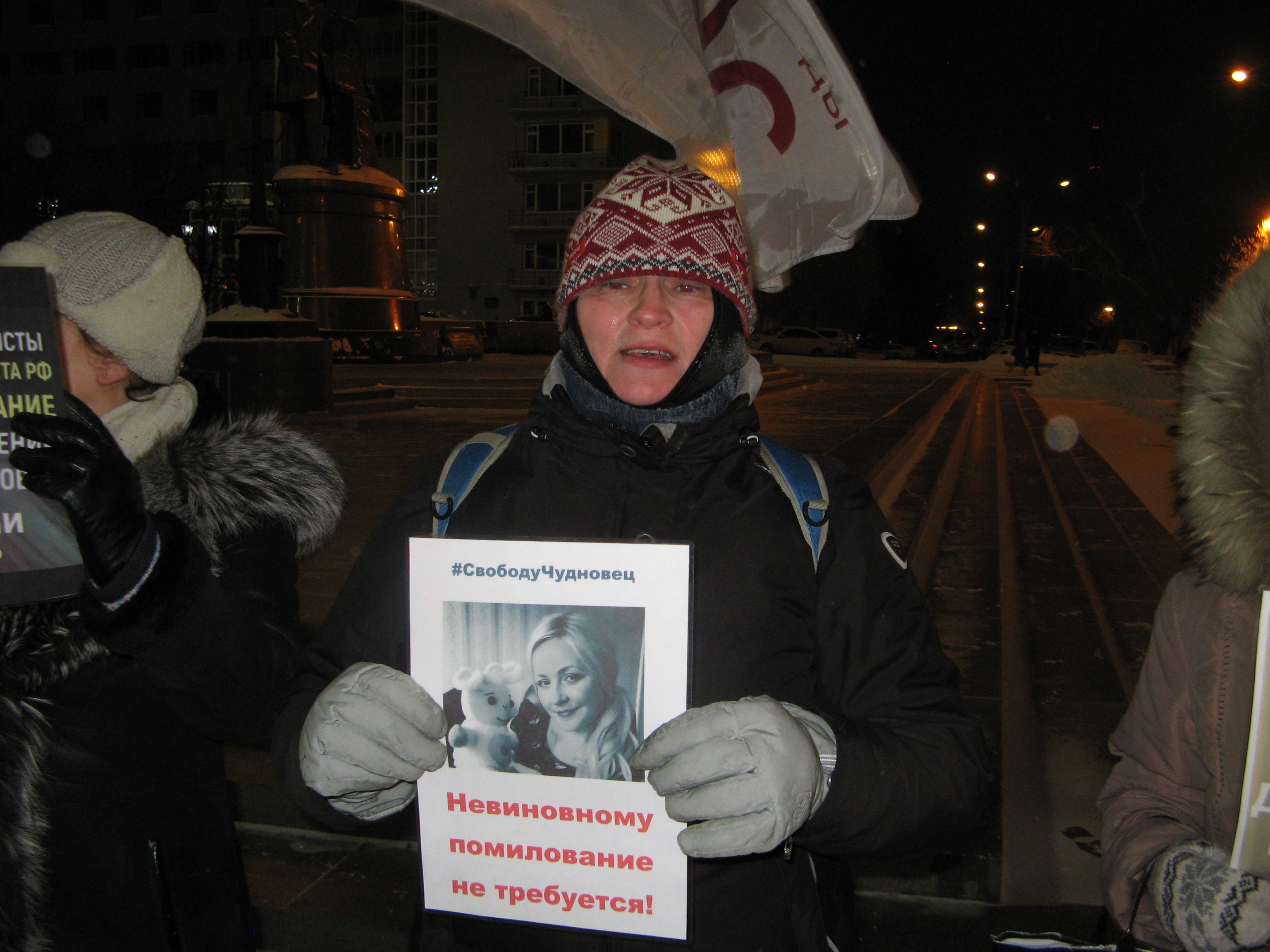 Participant of Strategy-6 demands to free Chudnovets, Ekaterinburg, February 06, 2017